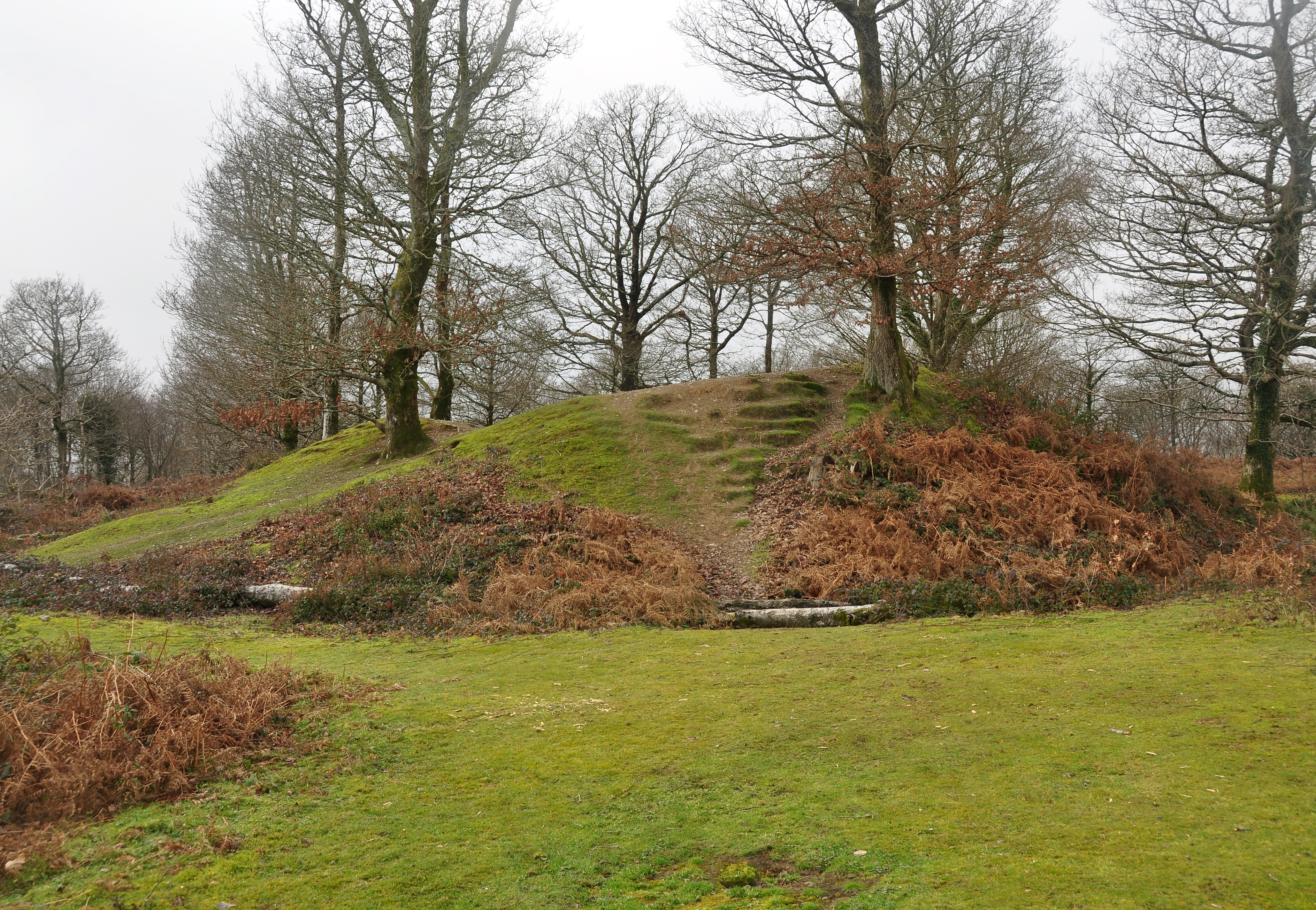 The motte of Hembury Castle, near Buckfastleigh, Devon.